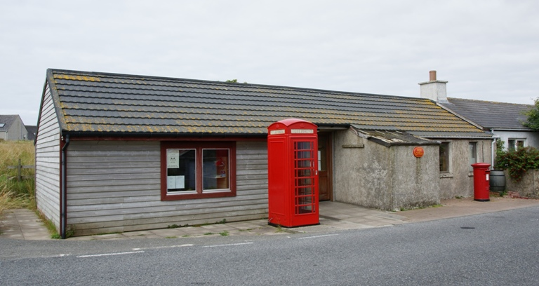 Baltasound, Unst, Shetland, Scotland - most northern British post office